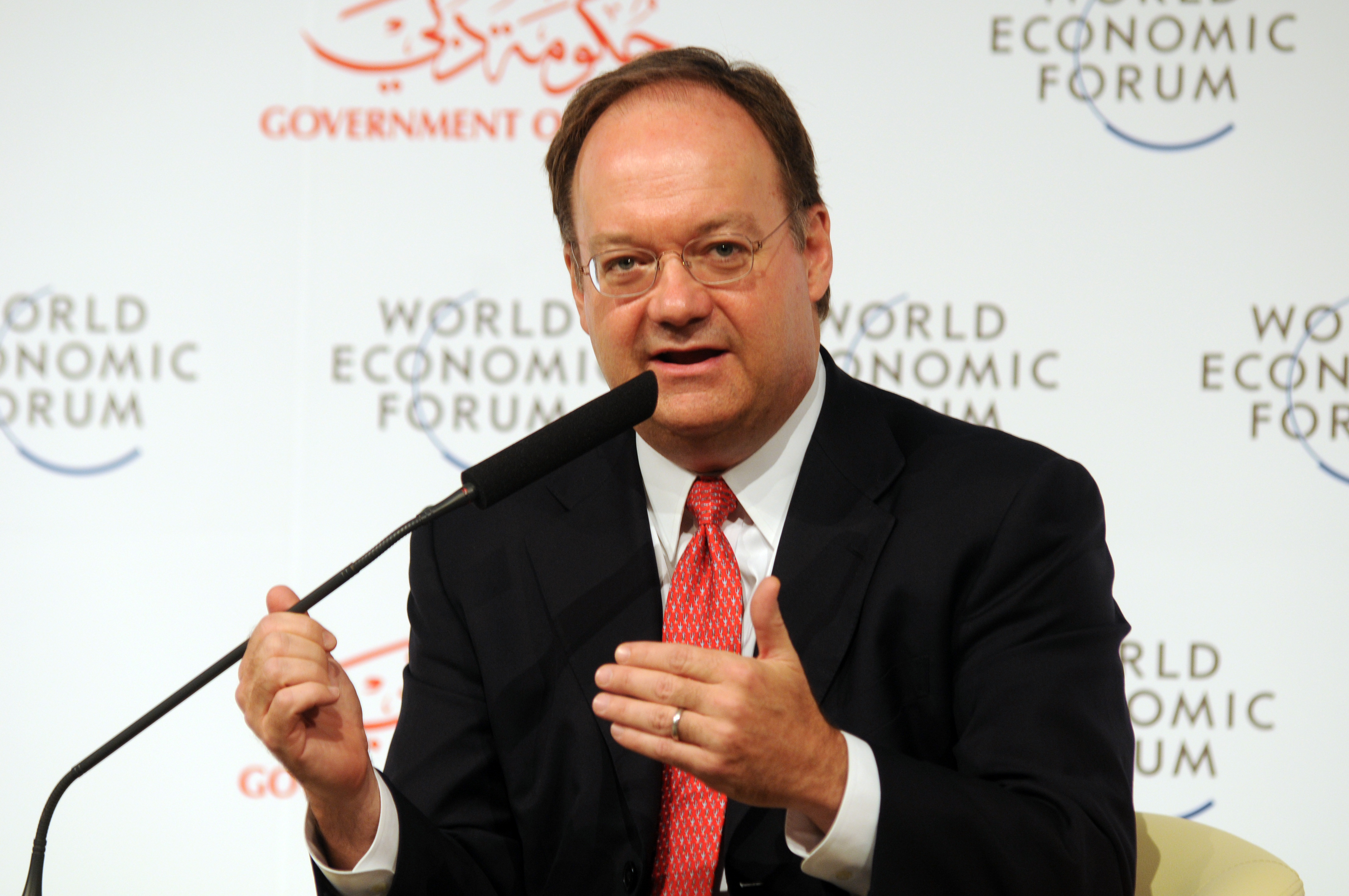 John J. DeGioia, President of Georgetown University, United States, speaking at the World Economic Forum Summit on the Global Agenda 2008 in Dubai, United Arab Emirates.